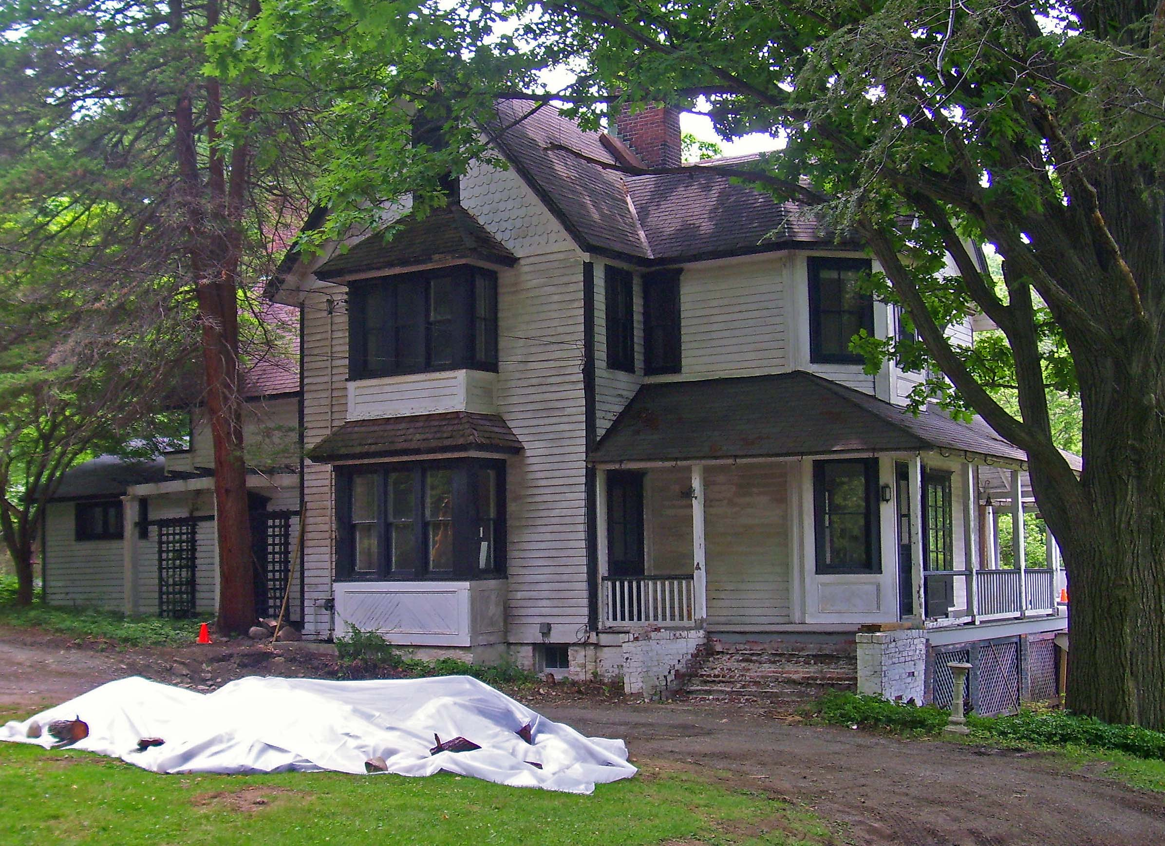 Home of writer Amelia Barr in Cornwall-on-Hudson, NY, USA.